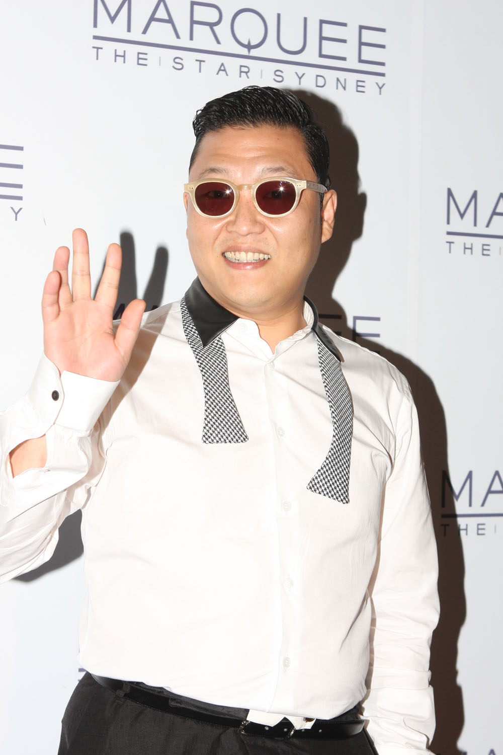 Psy Gangnam Style performs at Marquee, The Star, Sydney, Australia Korean rap music sensation Psy (Park Jae-Sang) performed at Sydney's famous Marquee nightclub at midnight last night. Psy official website Marquee Sydney Eva Rinaldi Photography Flickr Eva Rinaldi Photography Music News Australia